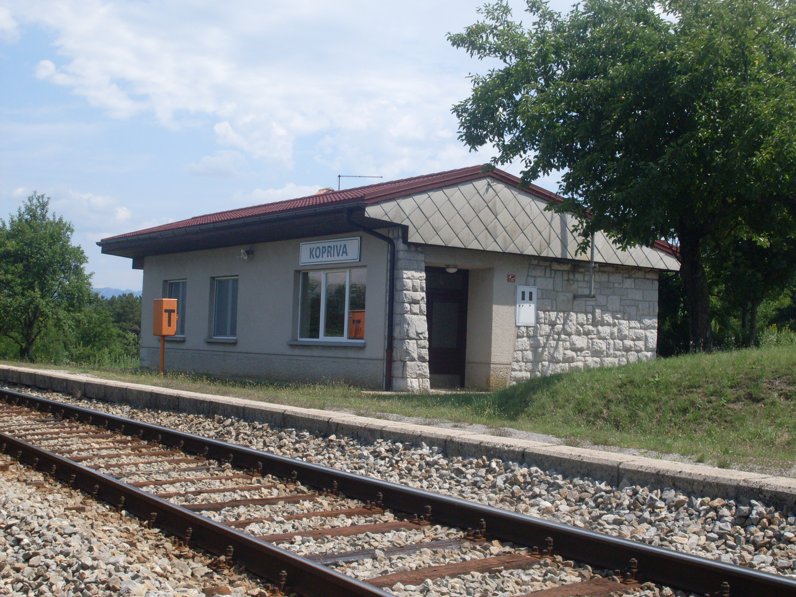 Railway halt Kopriva